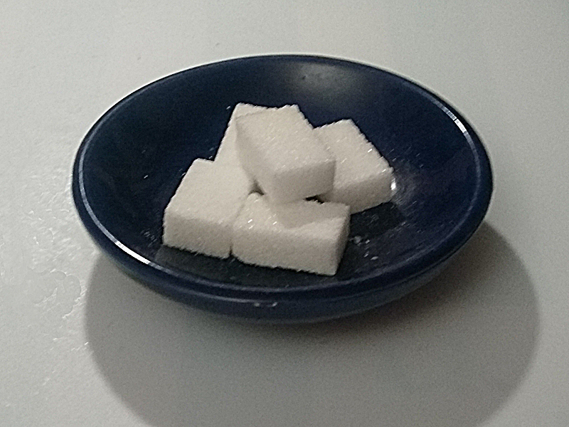 Sugar cubes size nb. 4 as sold in France